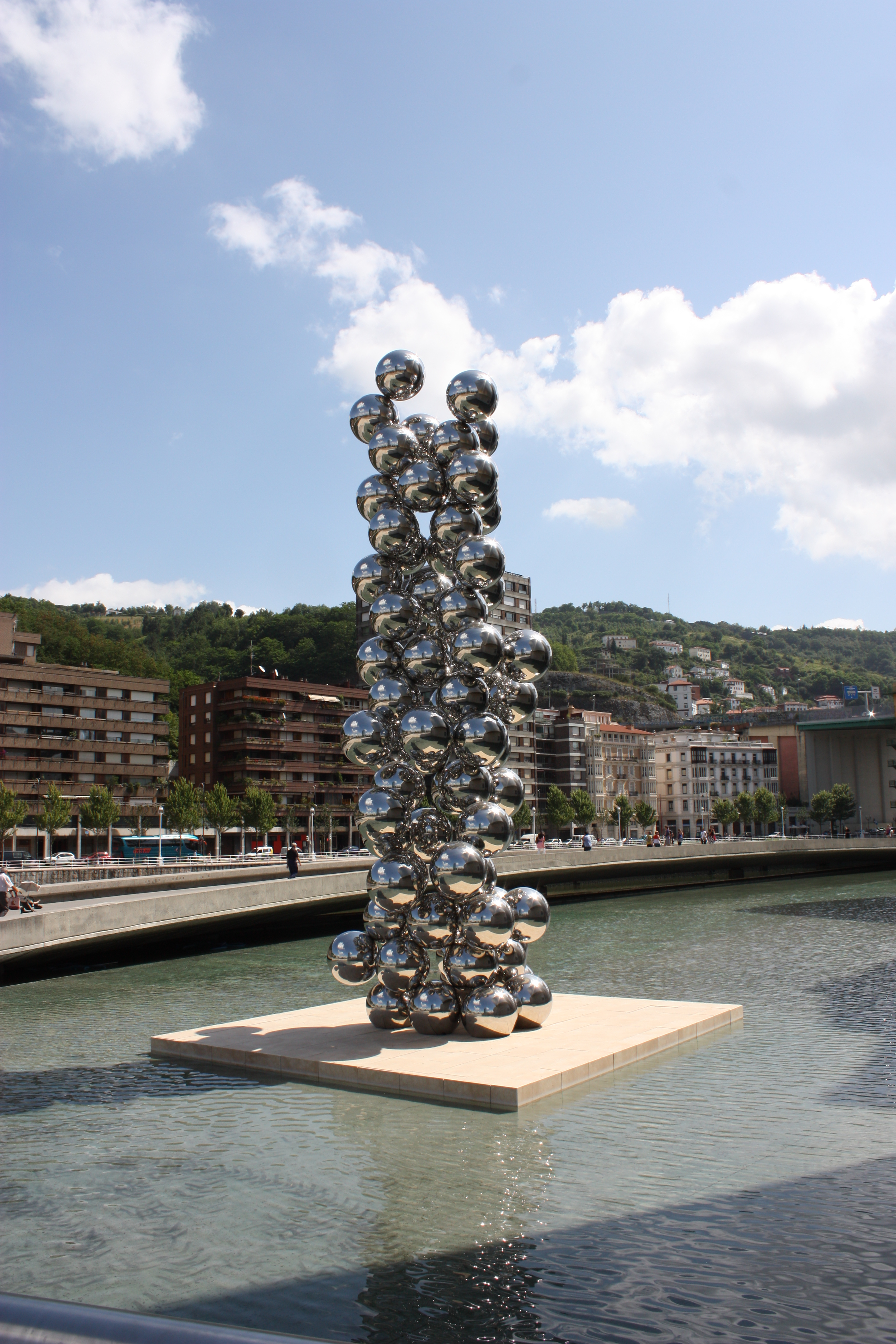 "Tall Tree and the Eye" sculpture (Anish Kapoor, 2009), Guggenheim Museum, Bilbao, Biscay, Spain, July 2010